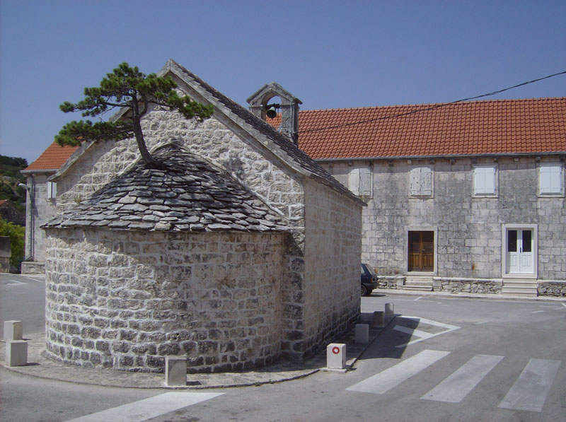 Town of Nerežišća on the island of Brač, Croatia, Europe